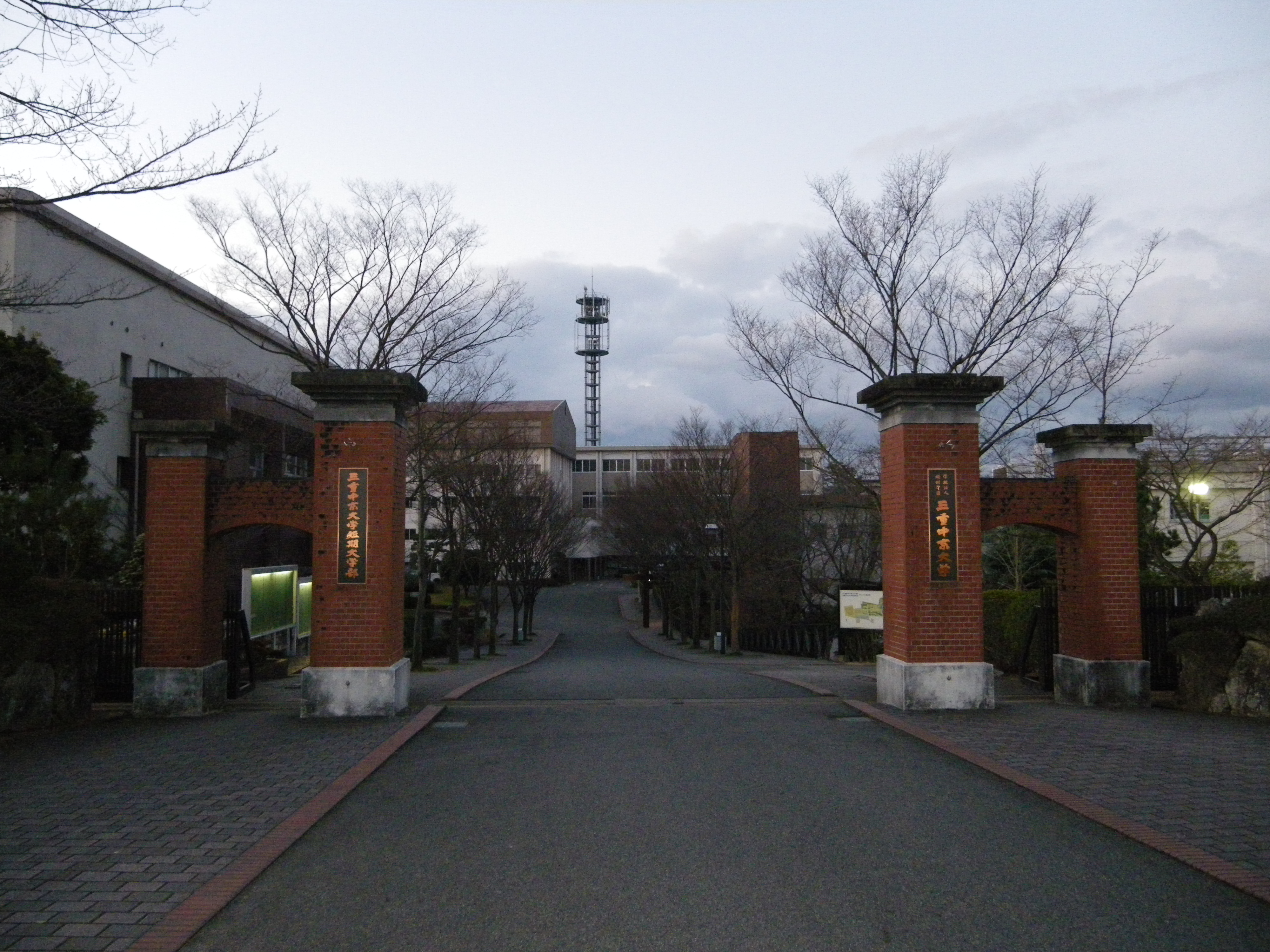 This picture is Mie Chukyo University's main gate.